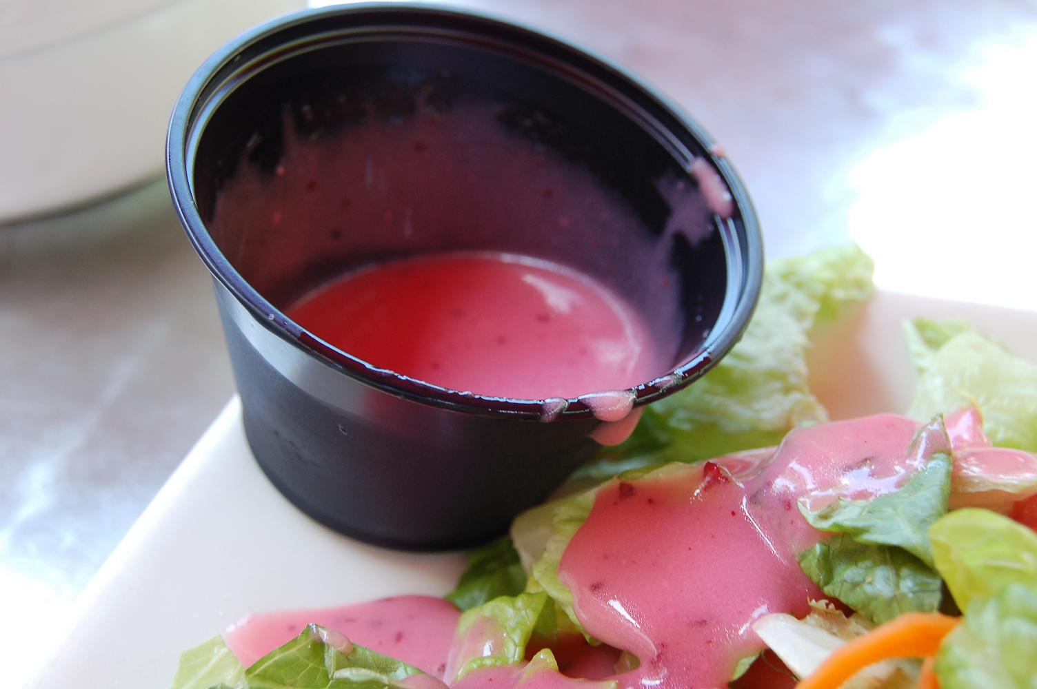 Vinaigrette is a mixture (emulsion) of edible oil and vinegar, sometimes flavored with herbs, spices, and other ingredients. It is used most commonly as a salad dressing, but also as a cold sauce or marinade. This version is flavored with raspberries and/or raspberry vinegar.